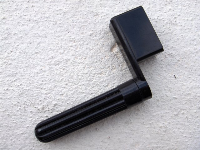 Guitar string winder taken by user:KayEss